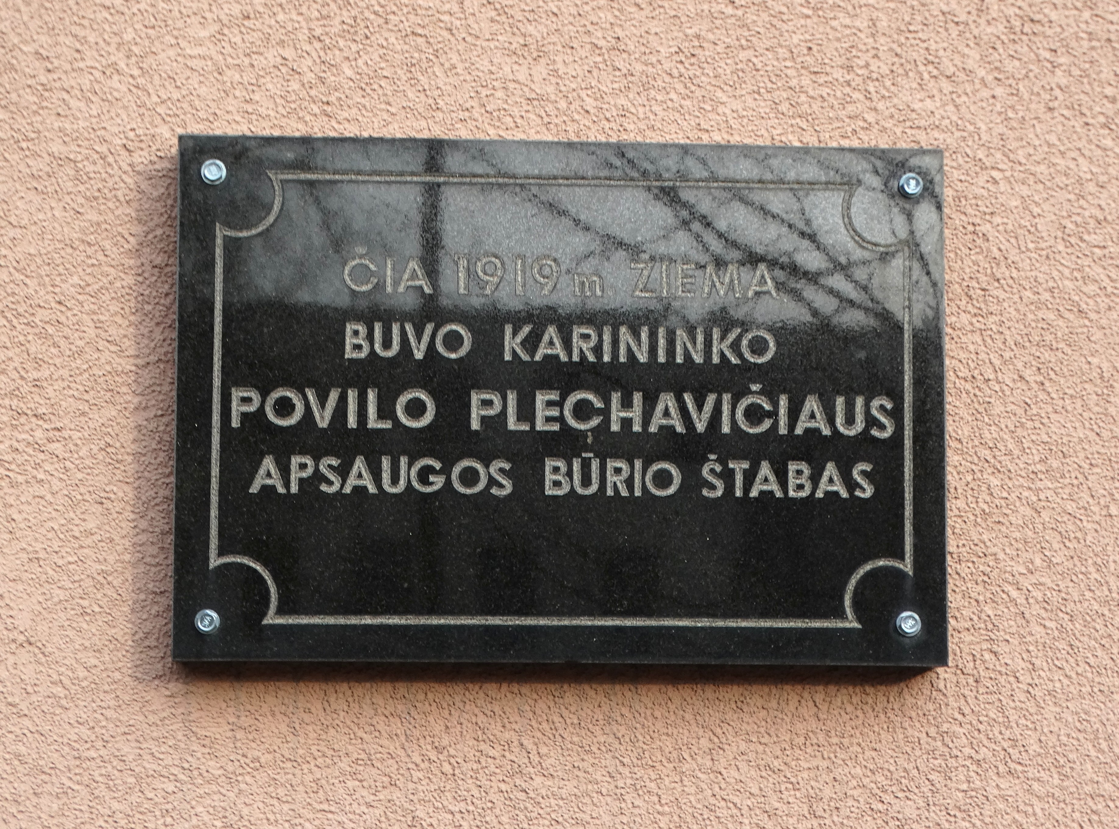 Guard headquarters of Povilas Plechavičius, memorial plaque, Skuodas, Lithuania